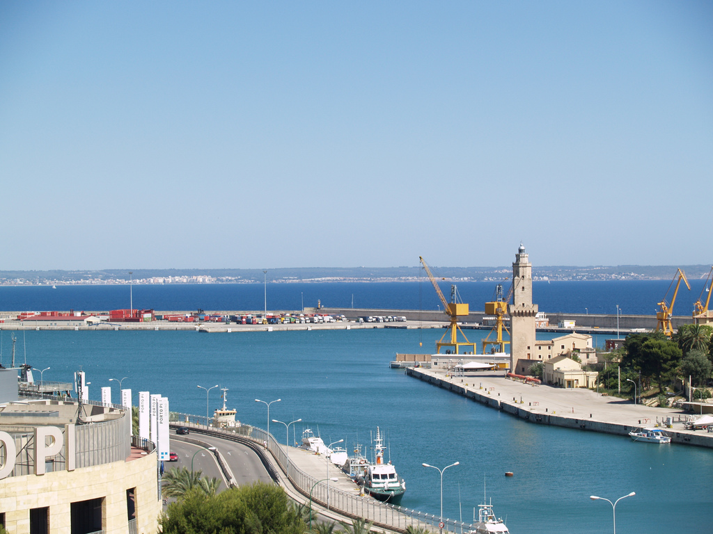 View of Portopí. Palma de Mallorca. Spain